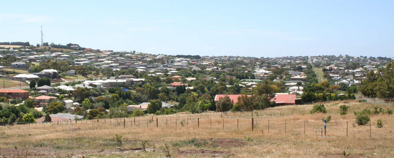 Overview of Wandana Heights looking to the north from Pigdons Road - Geelong, Victoria, Australia